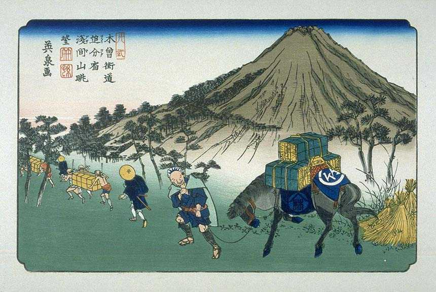 Oiwake on the Kisokaido, ukiyo-e prints by Keisai Eisen